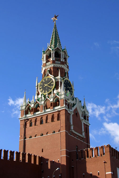 Moscow, the Kremlin. Spasskaya Tower.